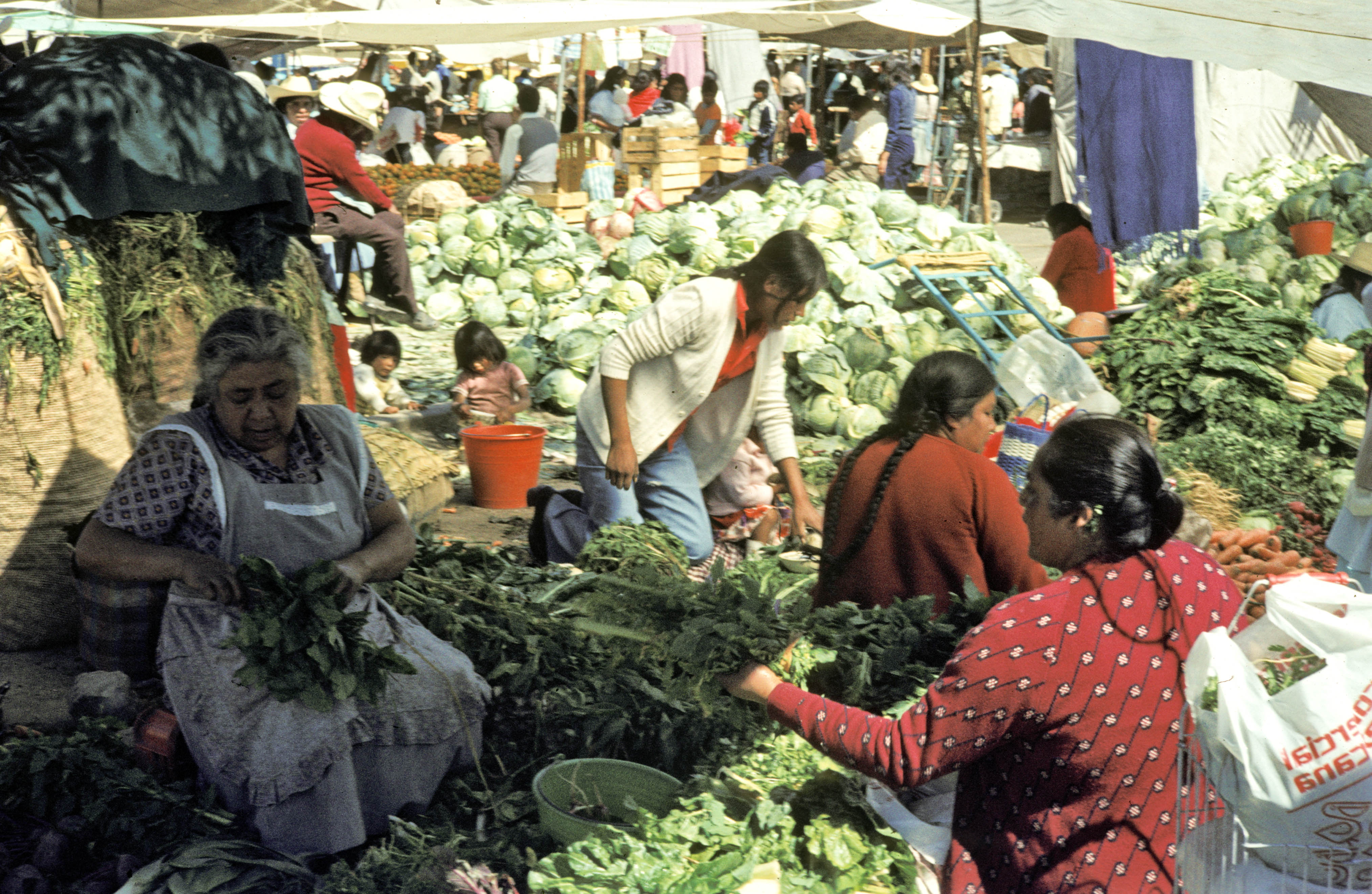 Image from Mexico in 1980; locality details unknown